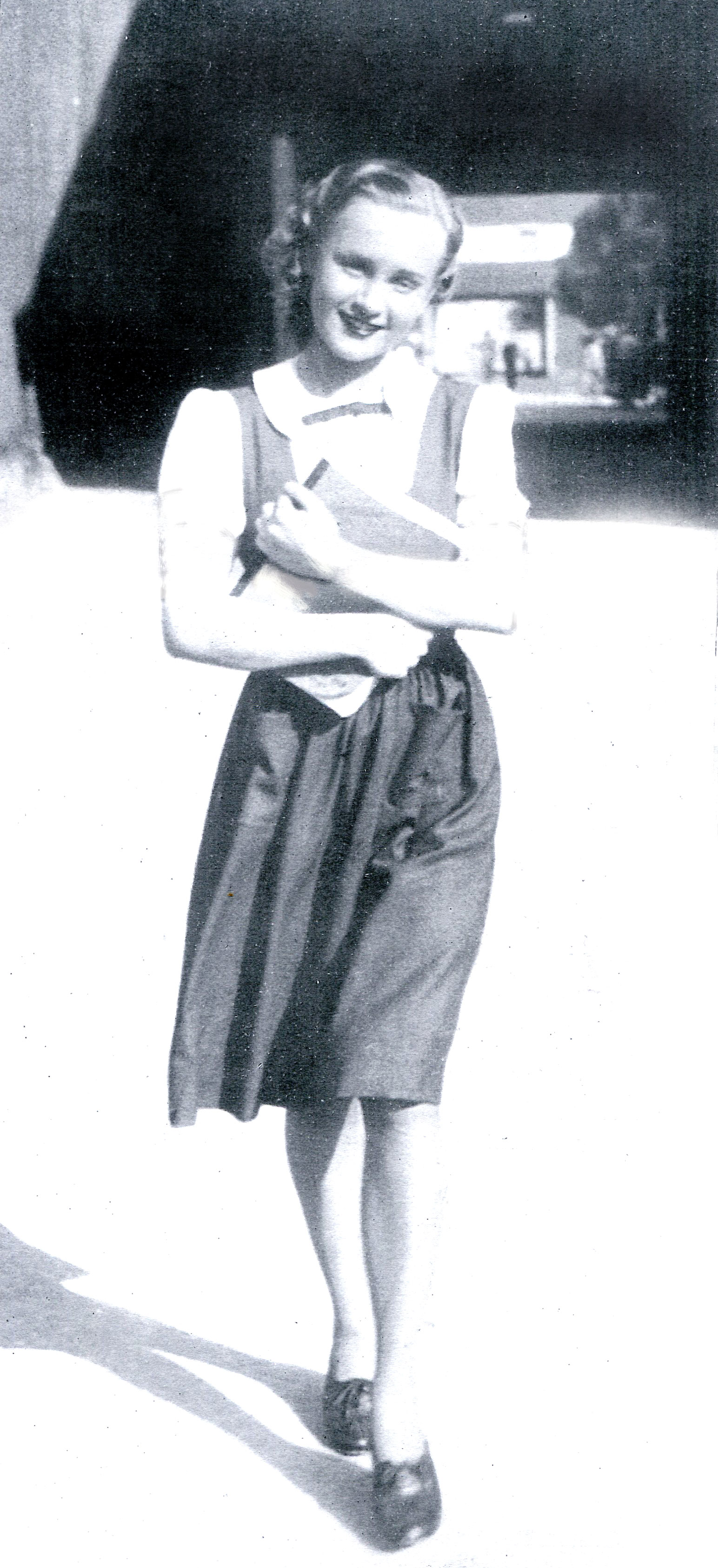 Irasema Dilian sul set di "ore 9 lez chimic" ( Mattoli 1941)